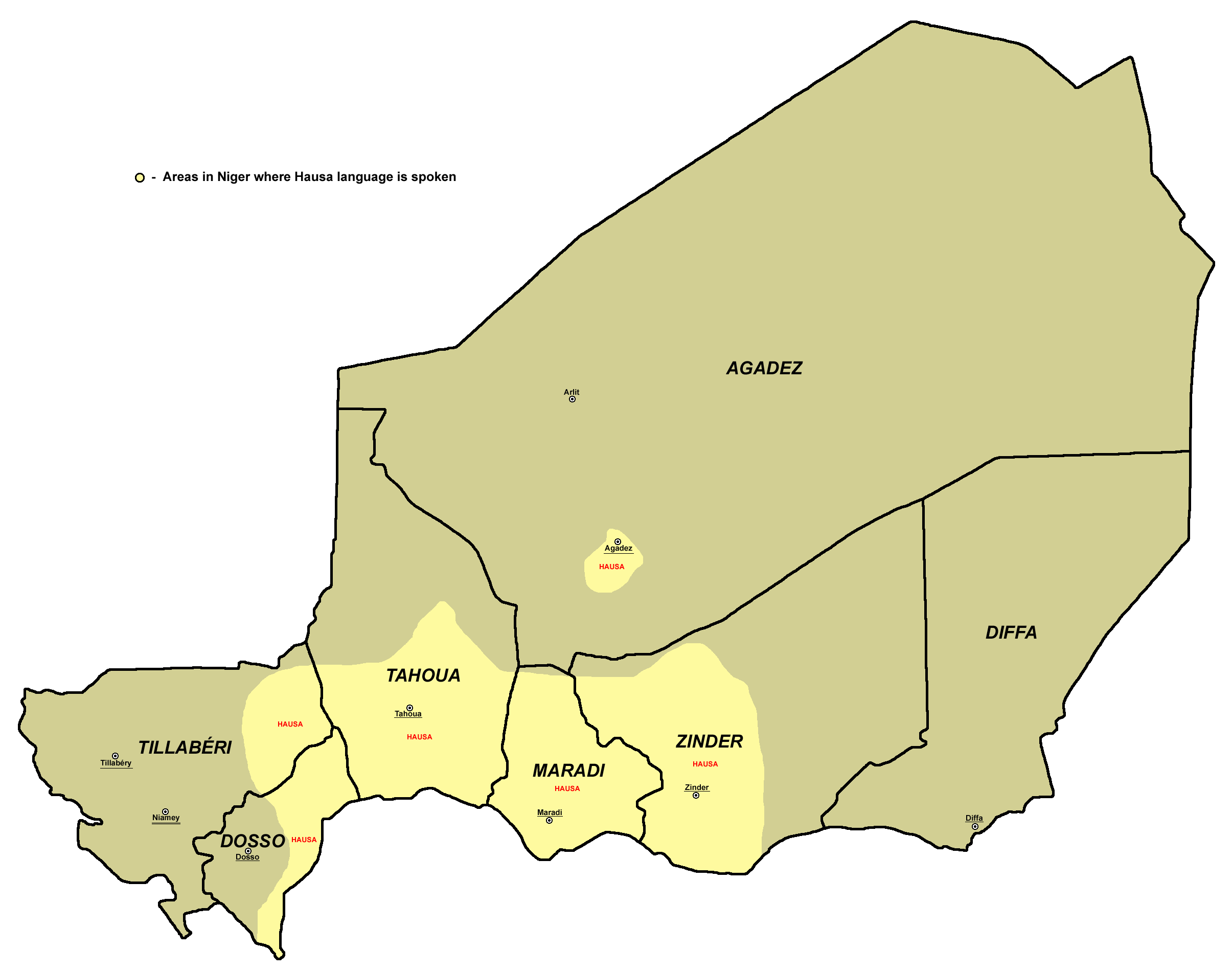 Areas in Niger where Hausa language is spoken. Note: Speakers of Hausa are mixed with speakers of other languages and thus this map does not necessarily represent areas with Hausa speaking majority.